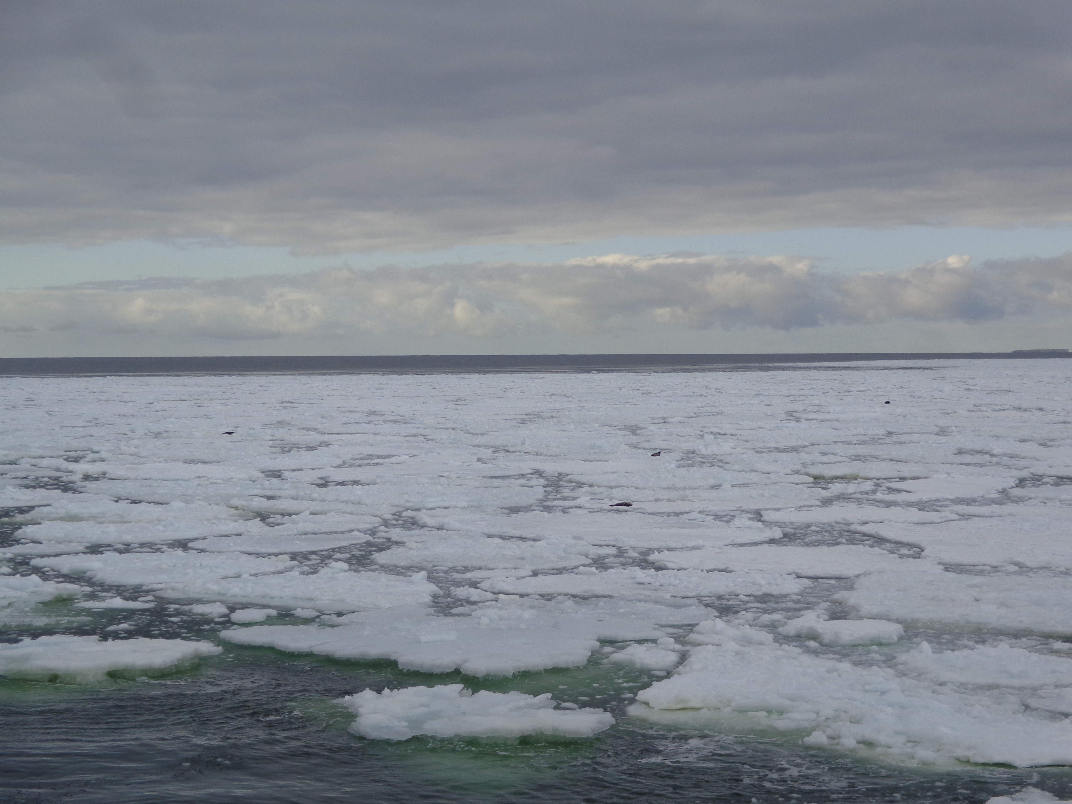 Seals in the Ross Sea, Antarctica